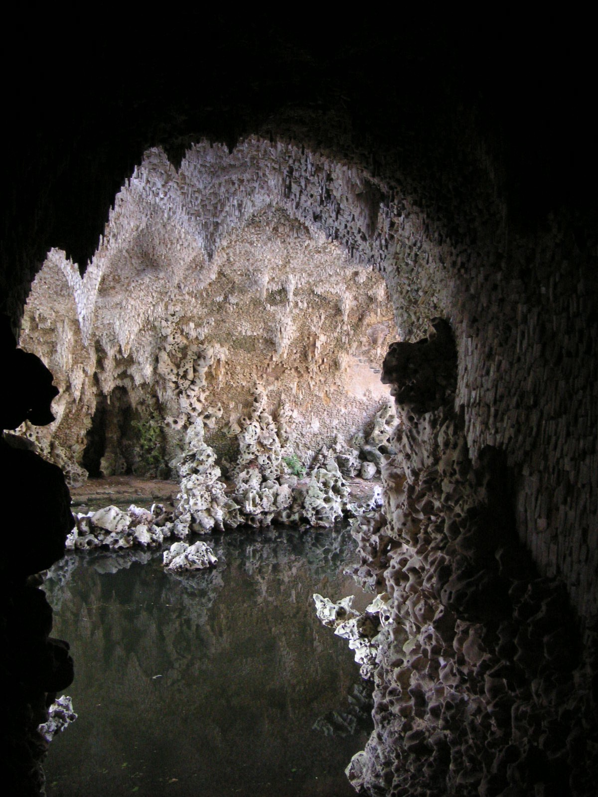 Painshill Park, Surrey, England. An 18th century landscape garden designed by Charles Hamilton MP. The interior of the "Crystal Grotto"